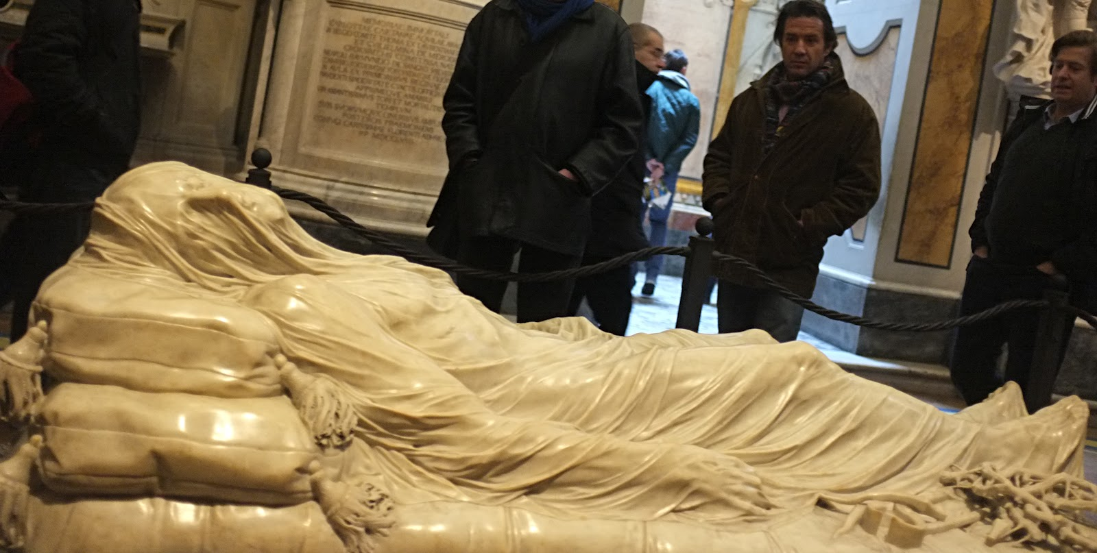 The Veiled Christ by Giuseppe Sanmartino